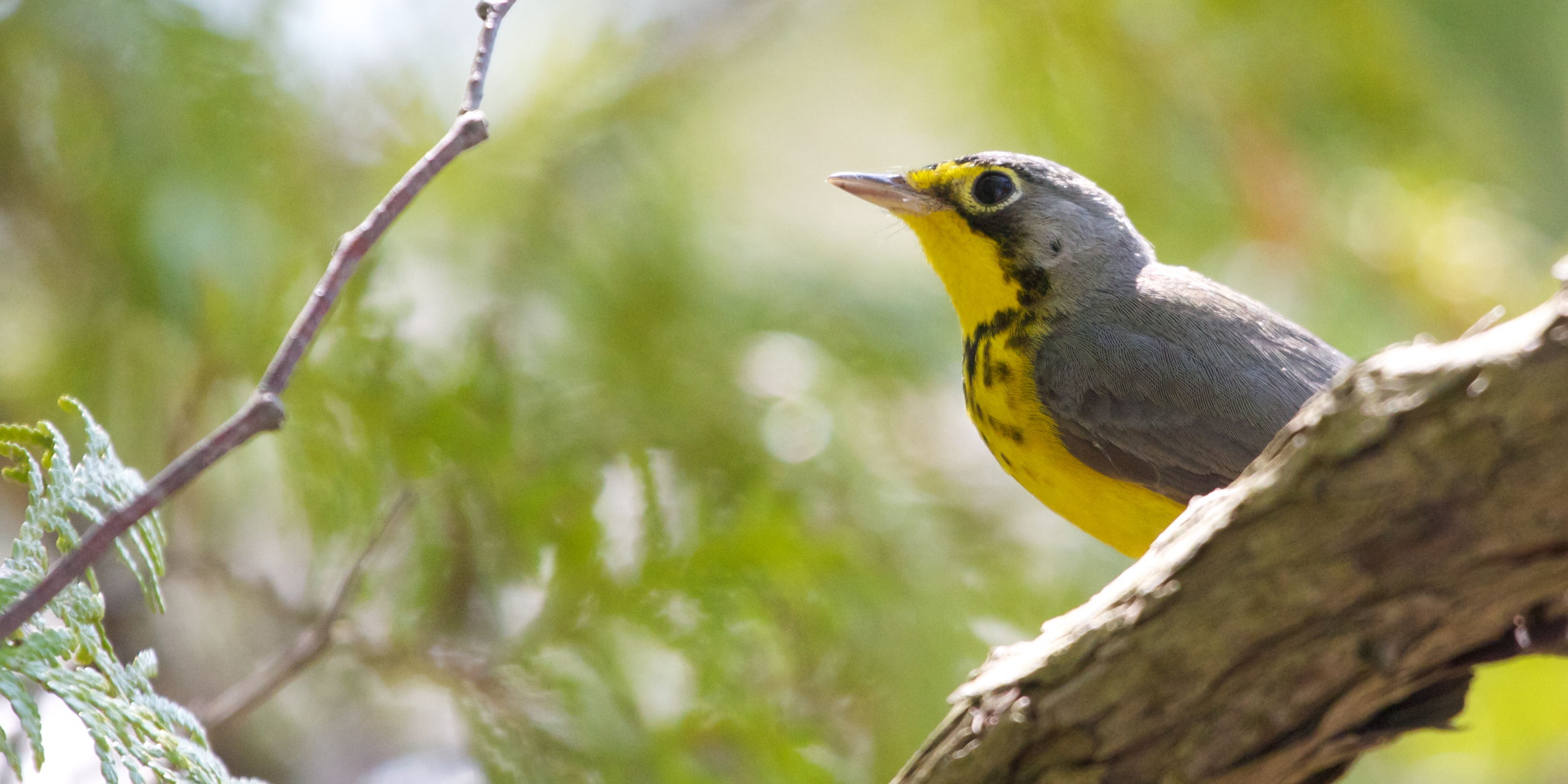 A colorful, active warbler of northern forests, the Canada Warbler spends little time on its breeding grounds. It is one of the last warblers to arrive north in the spring, and one of the first to leave in the fall, heading early to its South American wintering grounds. Canada Warbler - All About Birds